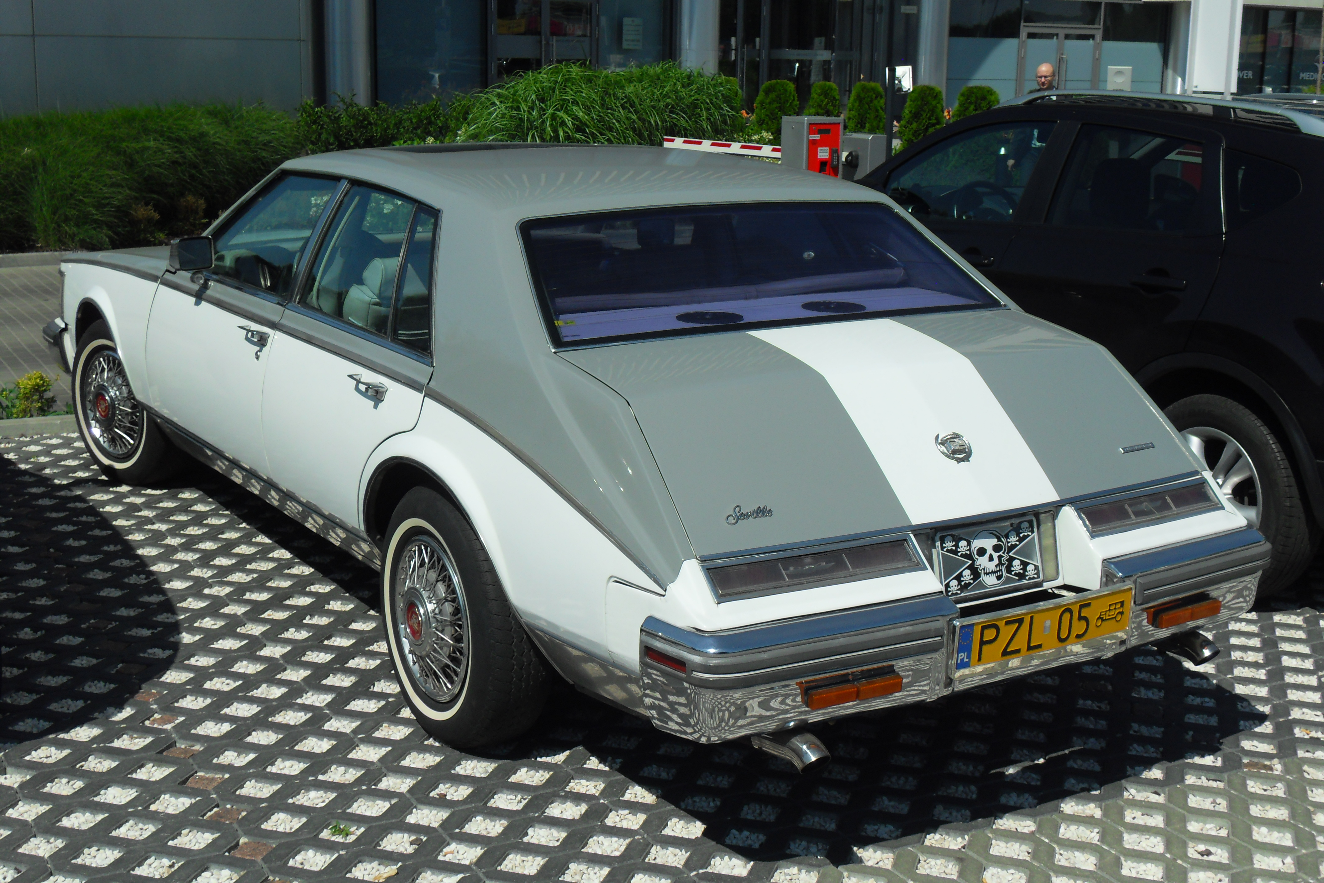 Cadillac Seville in Gdańsk (Poland).